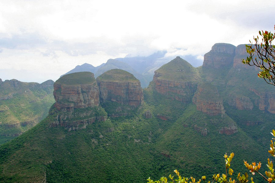 Three Rondavels